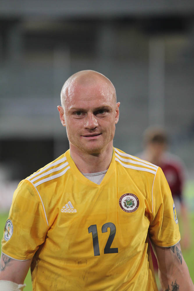 Latvian international football goalkeeper Pāvels Doroševs